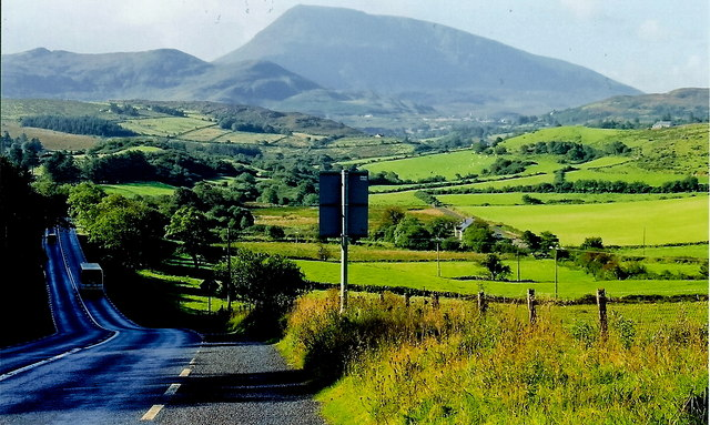 N56 between Portnablaghy & Ards Forest Tunnel This view is to the south